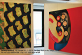 Inside the gallery